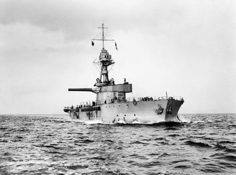 IWM caption : "BRITISH SHIPS OF THE FIRST WORLD WAR. HMS Marshal Ney, with 15-inch guns trained to starboard."